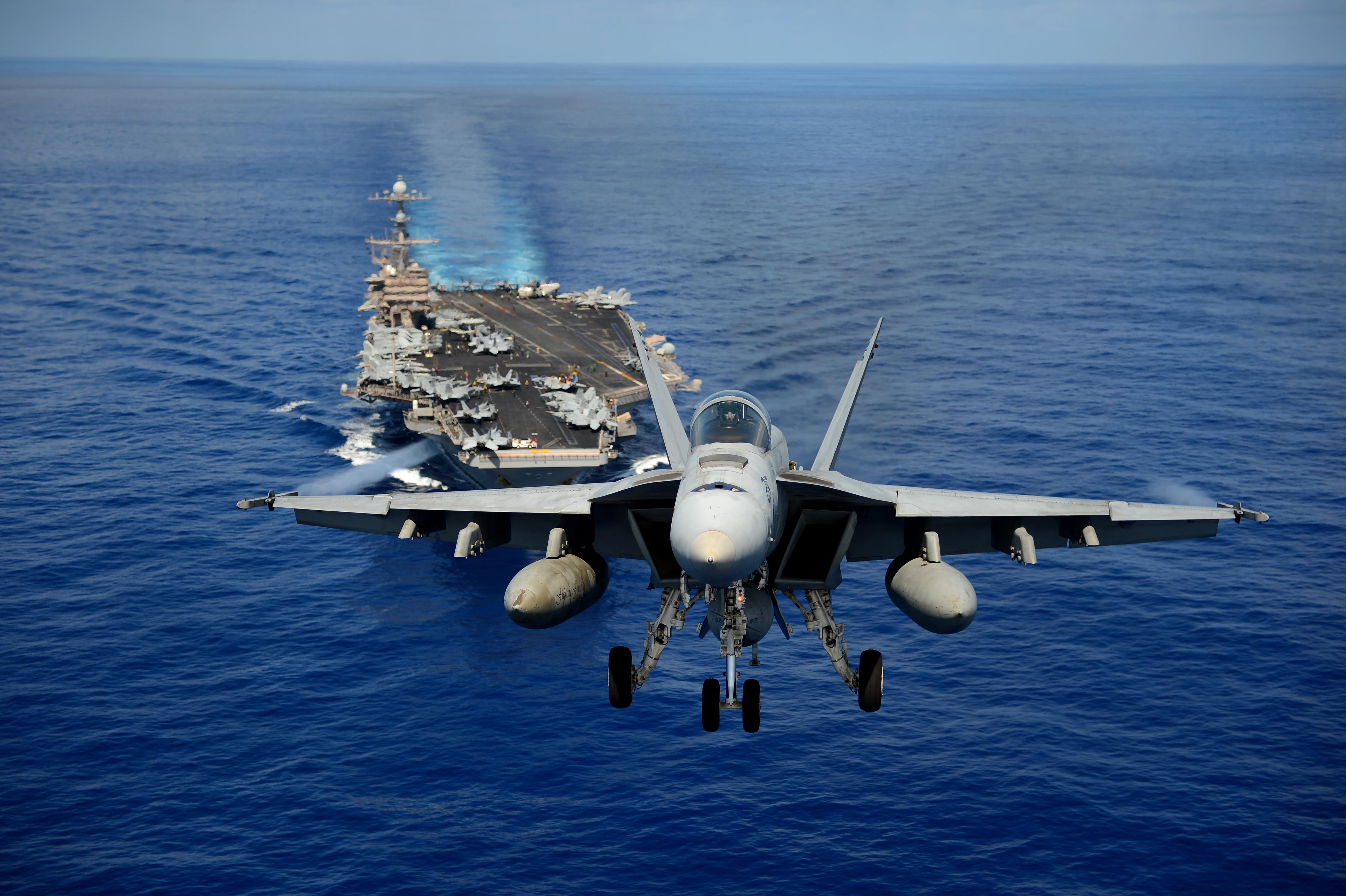 A U.S. Navy F/A-18E Super Hornet aircraft assigned to Strike Fighter Squadron (VFA) 14 participates in an air power demonstration near the aircraft carrier USS John C. Stennis (CVN 74) April 24, 2013, in the Pacific Ocean. The John C. Stennis Carrier Strike Group was returning from an eight-month deployment to the U.S. 5th Fleet and U.S. 7th Fleet areas of responsibility.